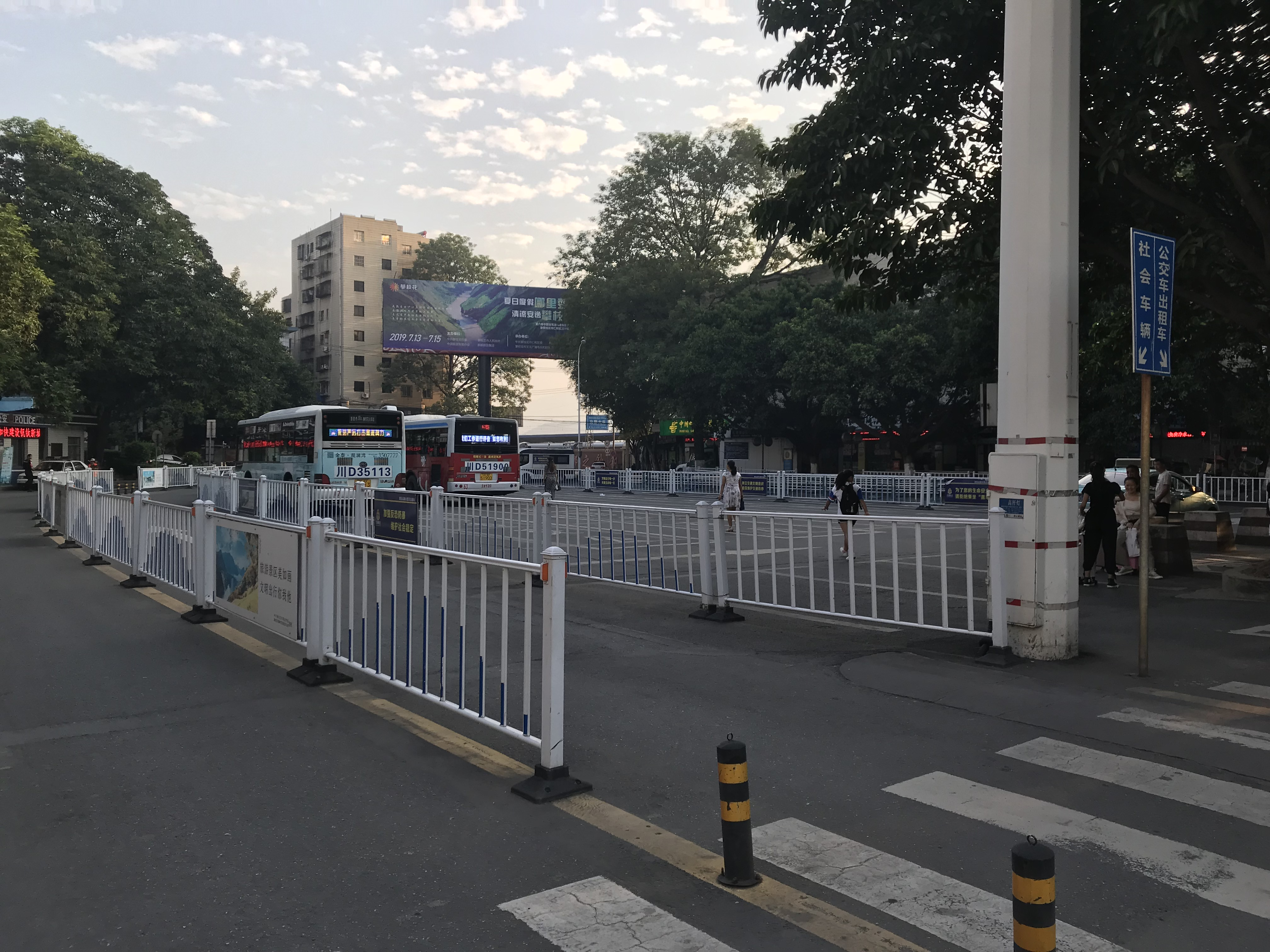 201908 Bus Stop of Panzhihua Railway Station